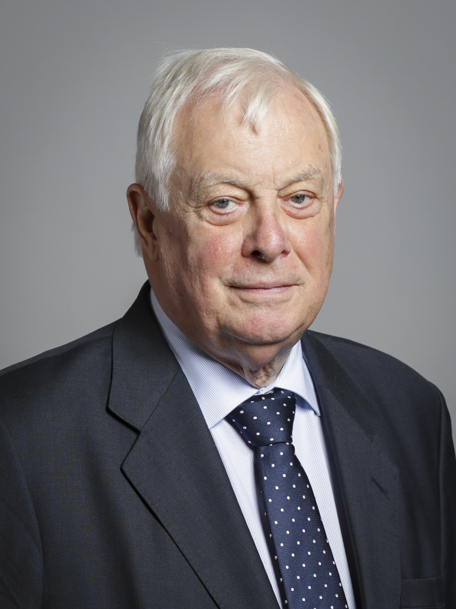 Official portrait of Lord Patten of Barnes 3×4 portrait of Lord Patten of Barnes